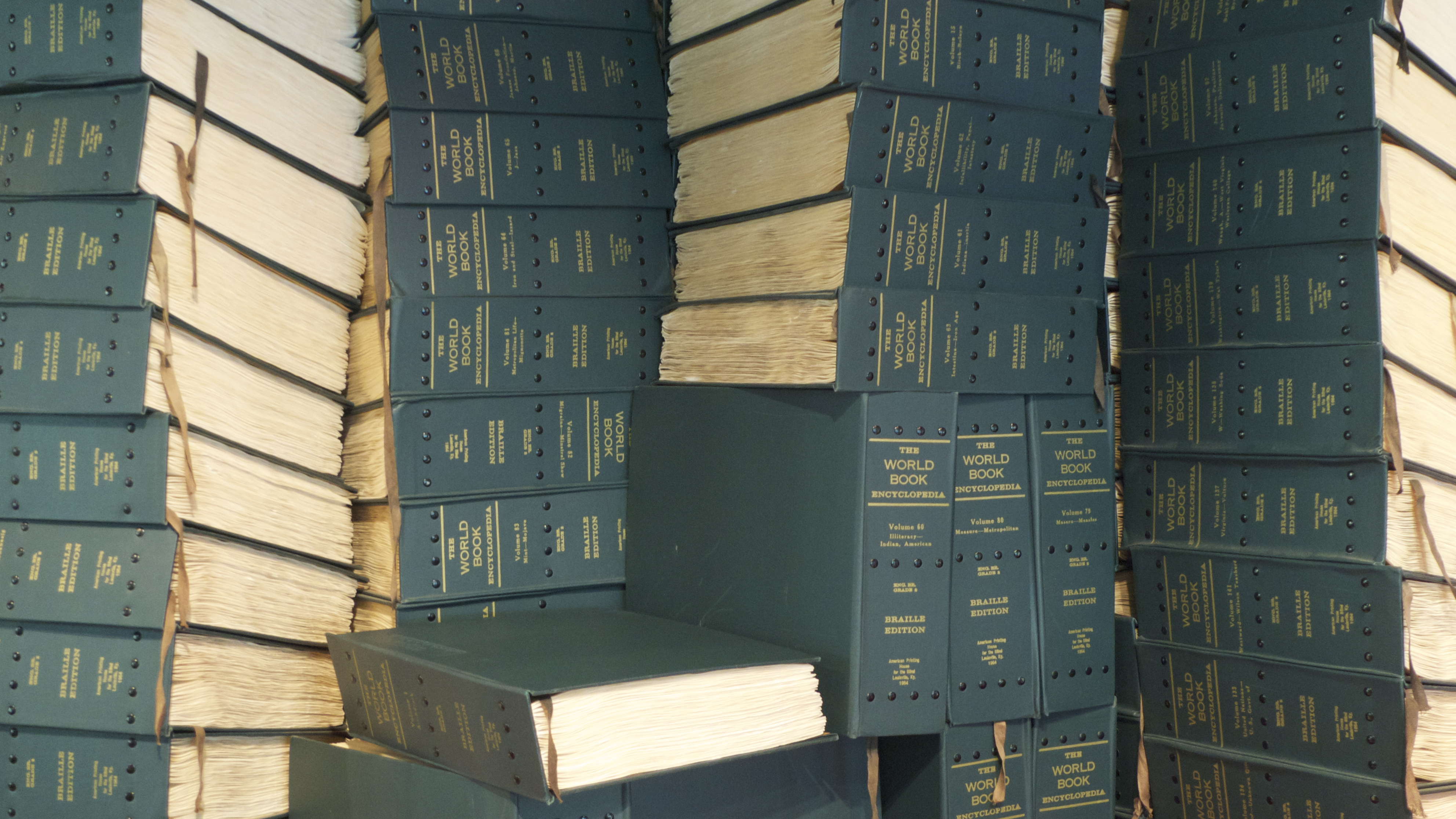 145-volume stack of the 1959 World Book Encyclopedia printed in Braille.